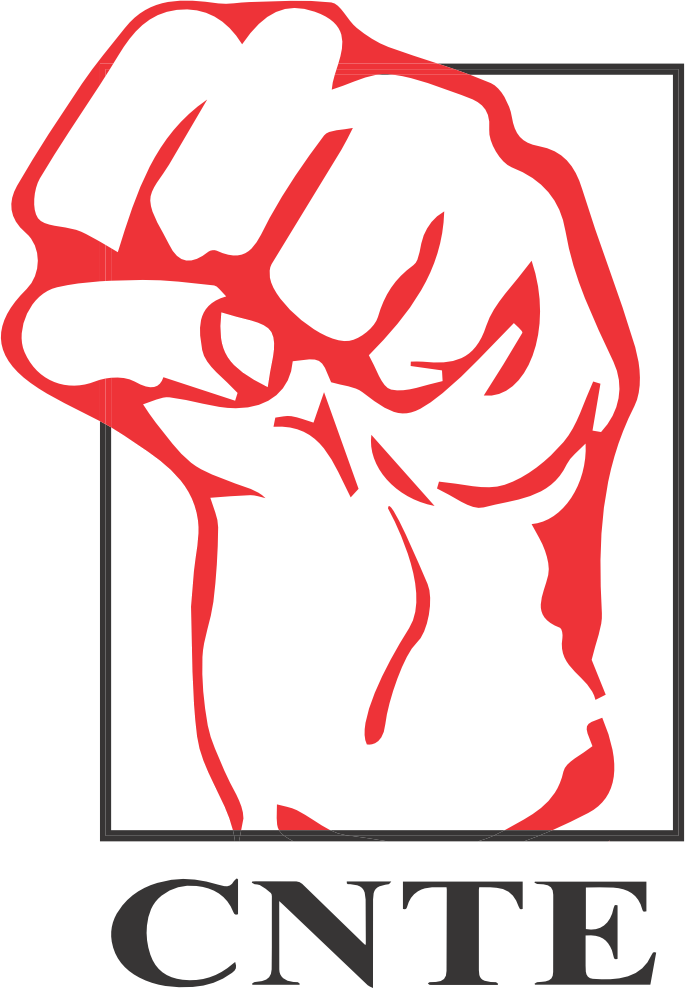 Logo of the National Coordinator of Education Workers (NCEW, in spanish CNTE)